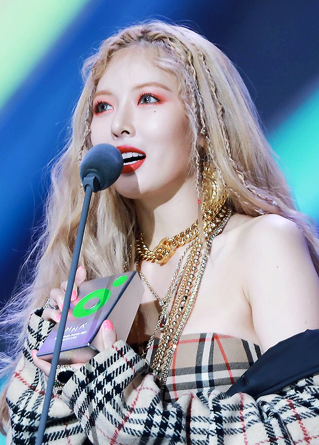 HyunA at Melon Music Awards on December 2, 2017.